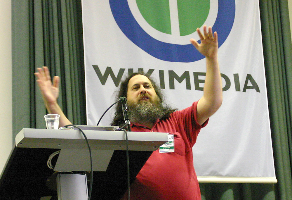 Wikimania 2005, Richard Stallman keynote